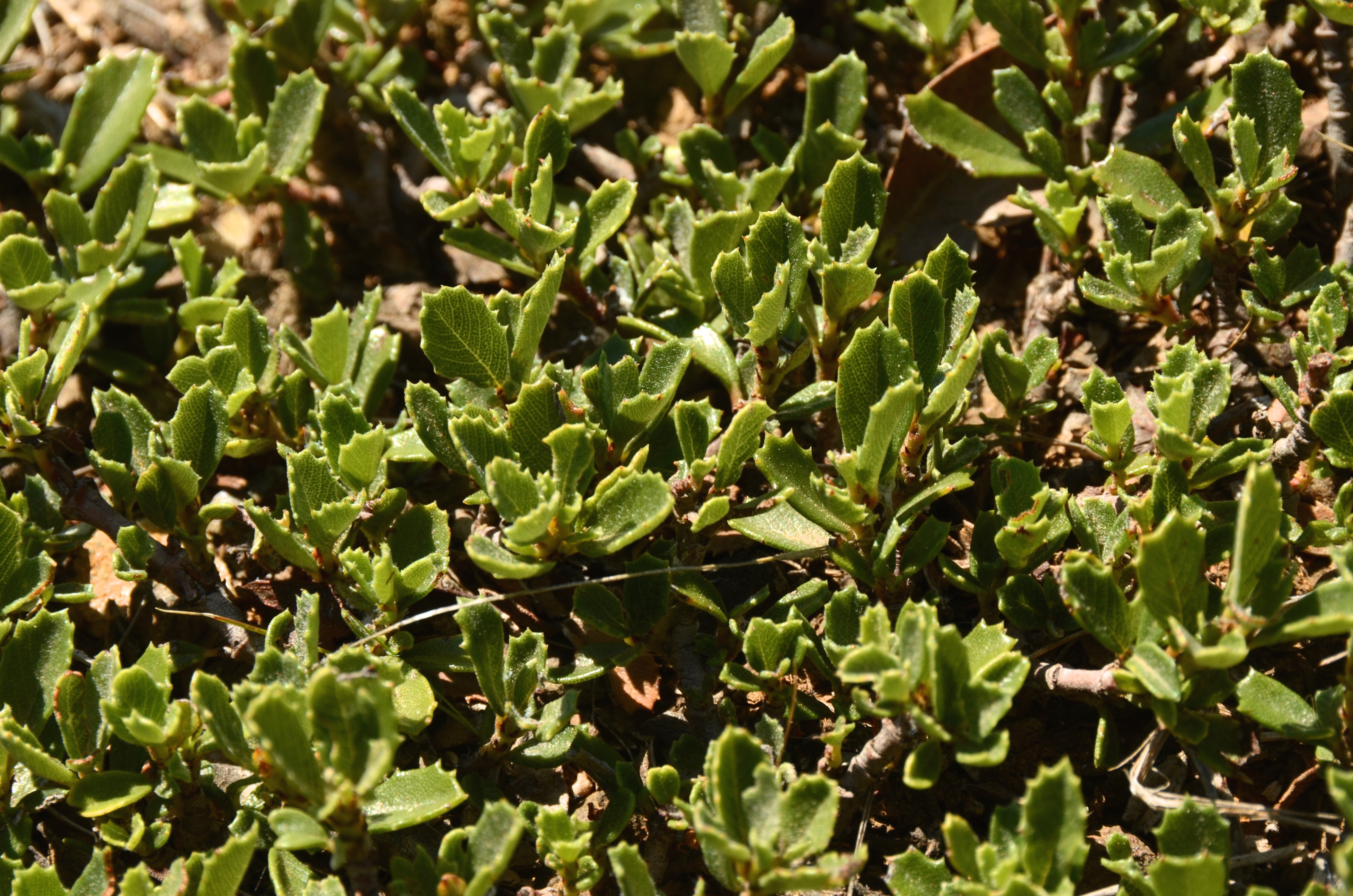 Close view of Ceanothus prostratus in Siskiyou County, CA